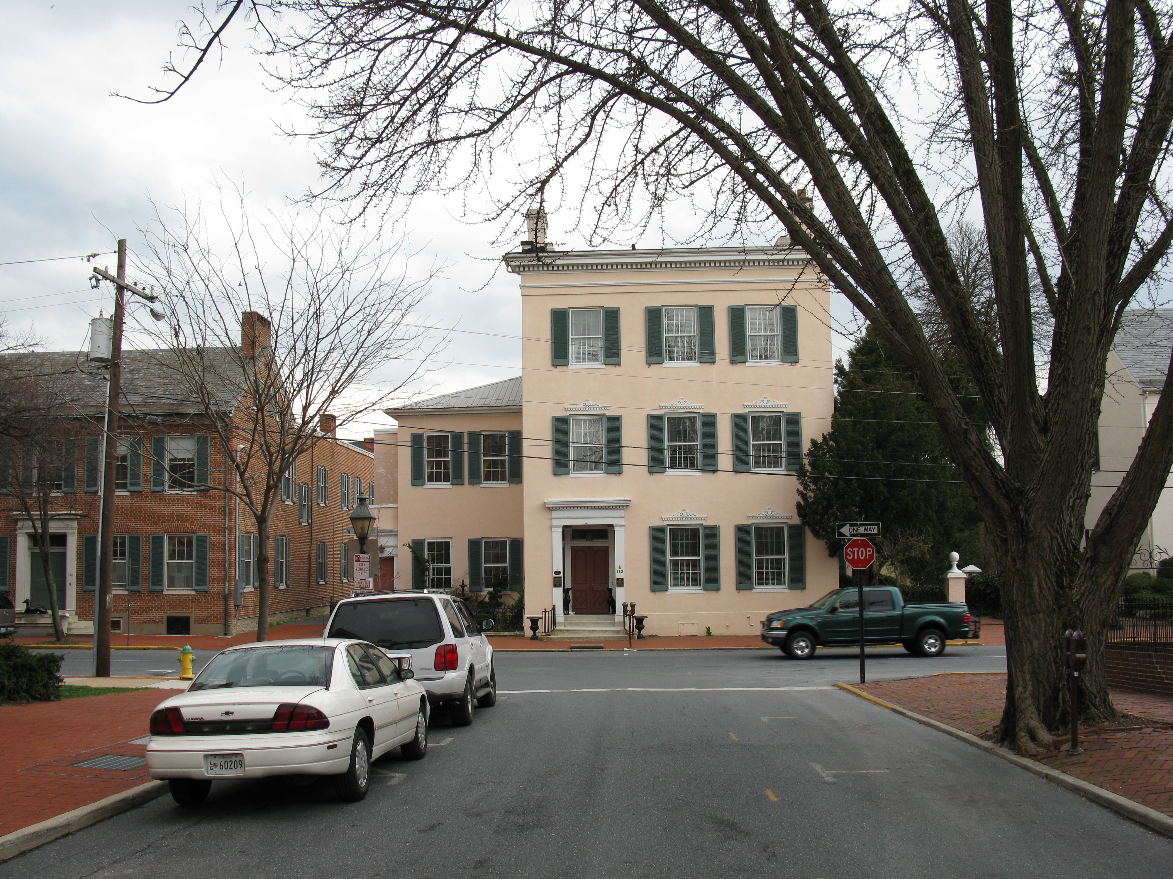 The Tyler Spite House at 112 Church Street, located opposite Record Street, Frederick, MD